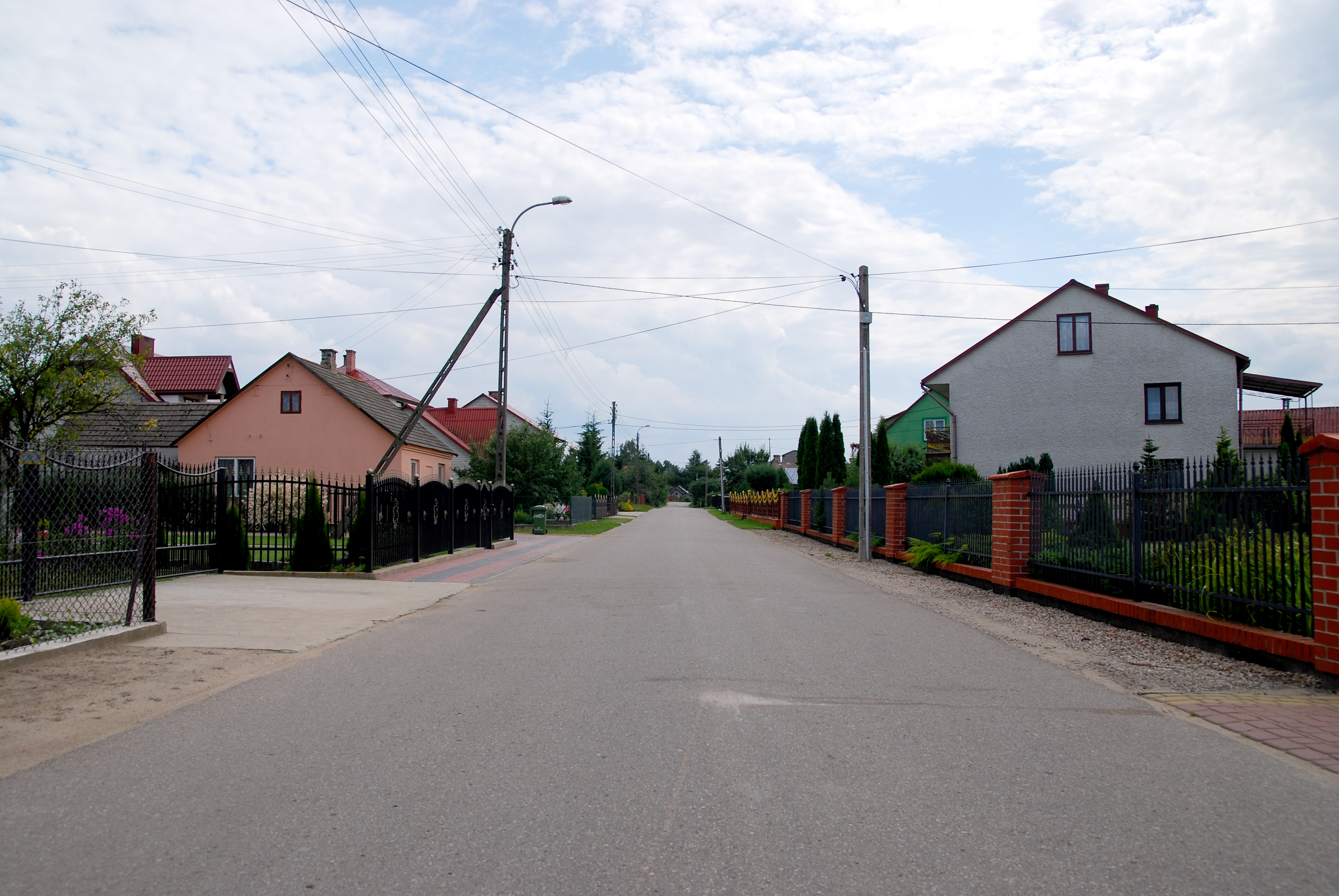 This photo from Podlaskie Voievodeship was taken during Polish Wikiexpedition 2009 set up by Wikimedia Polska Association. The making of this document was supported by Wikimedia Polska. Anusin - fragment wsi Podlasie